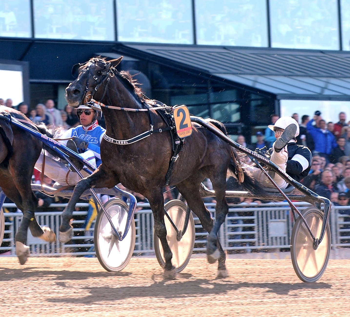 Kanal 75 Media Photo: Lars Jakobsson